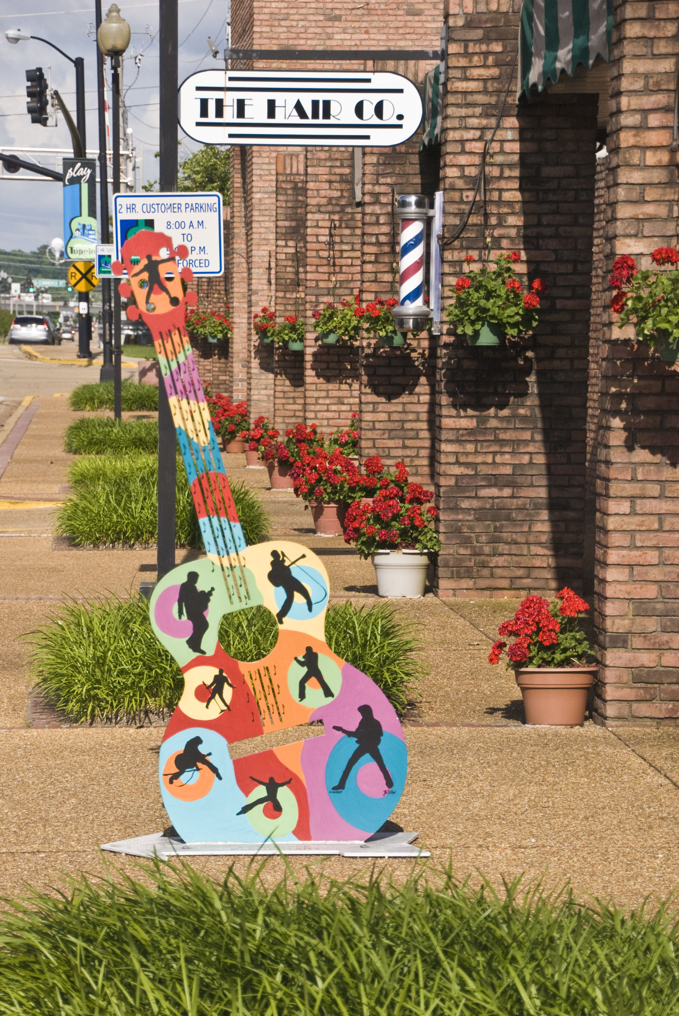 West Main Street, Tupelo, Mississippi, United States